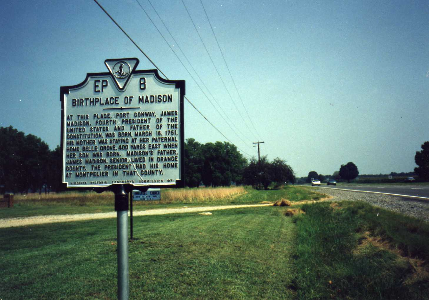 Virginia historic marker for Birthplace of President James Madison in Port Conway, Virginia. It is on the west side of US 301 in front of Emmanuel Episcopal Church and is just north of the Rappahannock River bridge. Belle Grove plantation house, the actual birthplace, was located 400 yards east and is no longer in existence